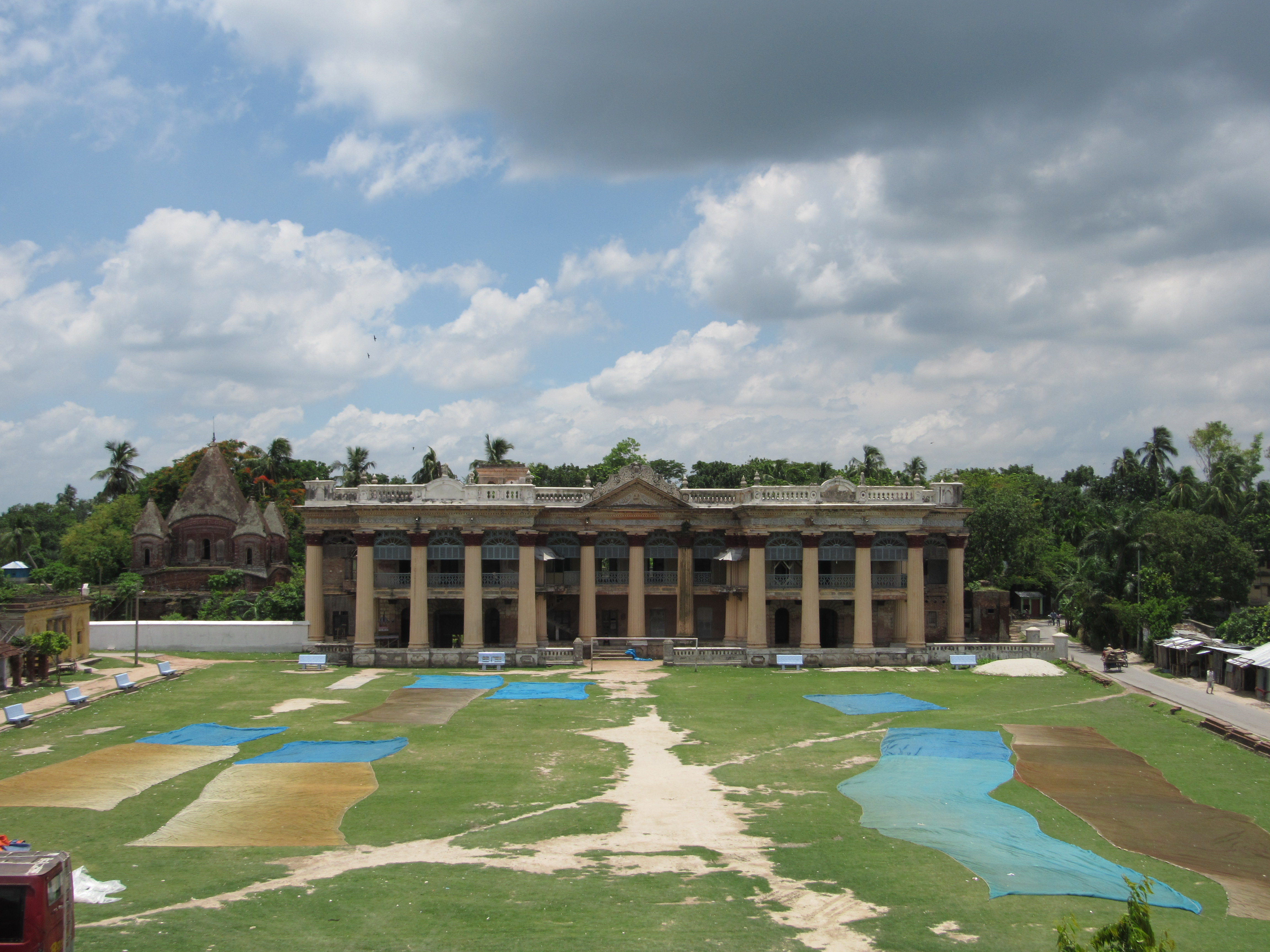 The palace was erected in 1895 by Puthia Raj family. It is an example of the Indo-Saracenic Revival architecture